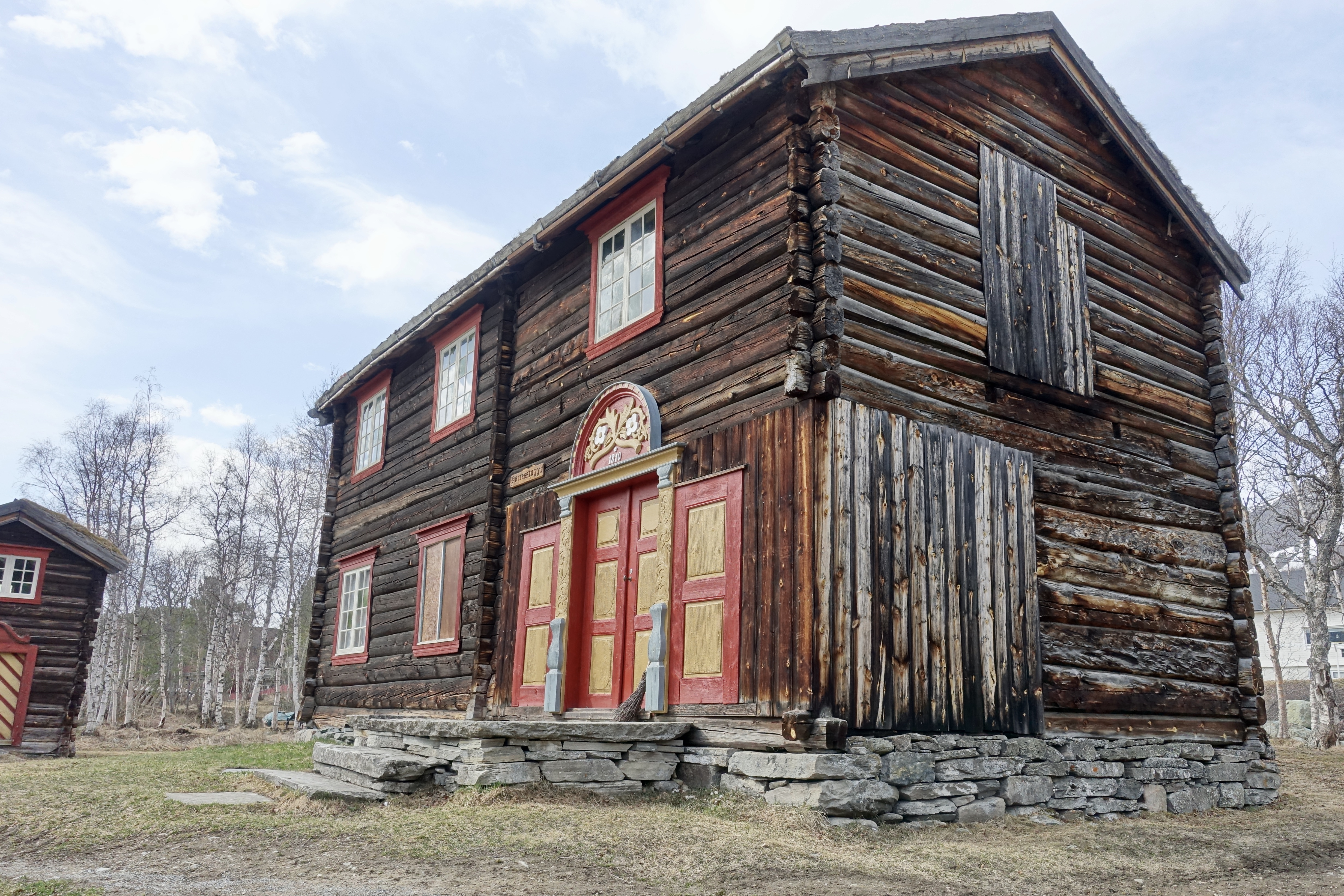 Dørresstuggu, a log cottage house build around 1800 with "1810" on the wooden portal board over the door and slate stone stair/porch, now re-erected at The Oppdal Museum (in Norwegian: Oppdalsmuseet or Oppal bygdemuseum), a local museum in Oppdal Municipality in Trøndelag County, Norway. The open-air museum near downtown Oppdal shows around 30 log buildings dating back to 1500 into the mid 1900’s, such as farm dwellings, barns, storage-houses, mills, smithy, hunting cabins, summerhouse, telephone office, ski-workshop and more. Photo taken on a spring day in April 2019.